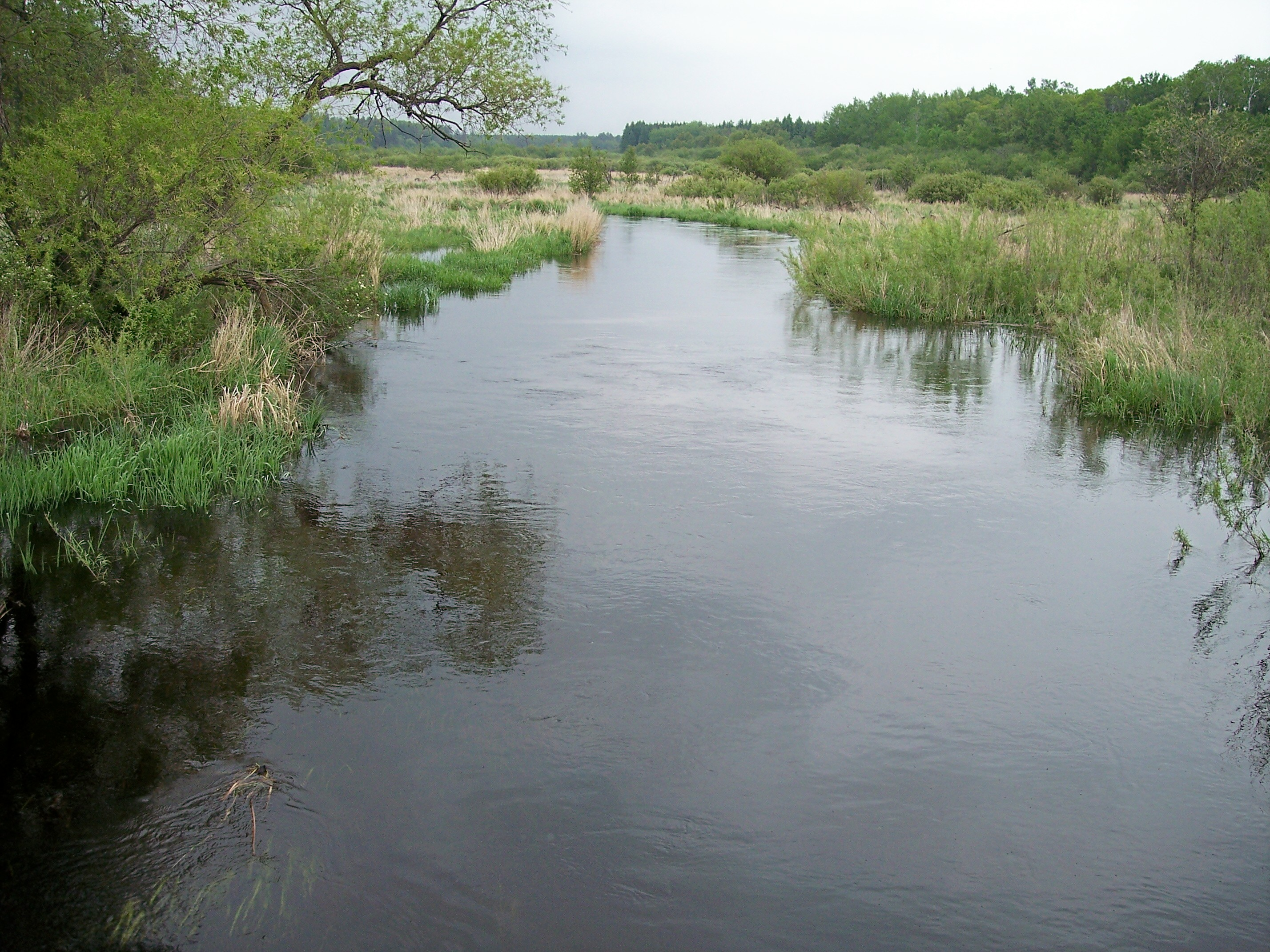 The Shell River as viewed from County Road 111 in Straight River Township, Minnesota.